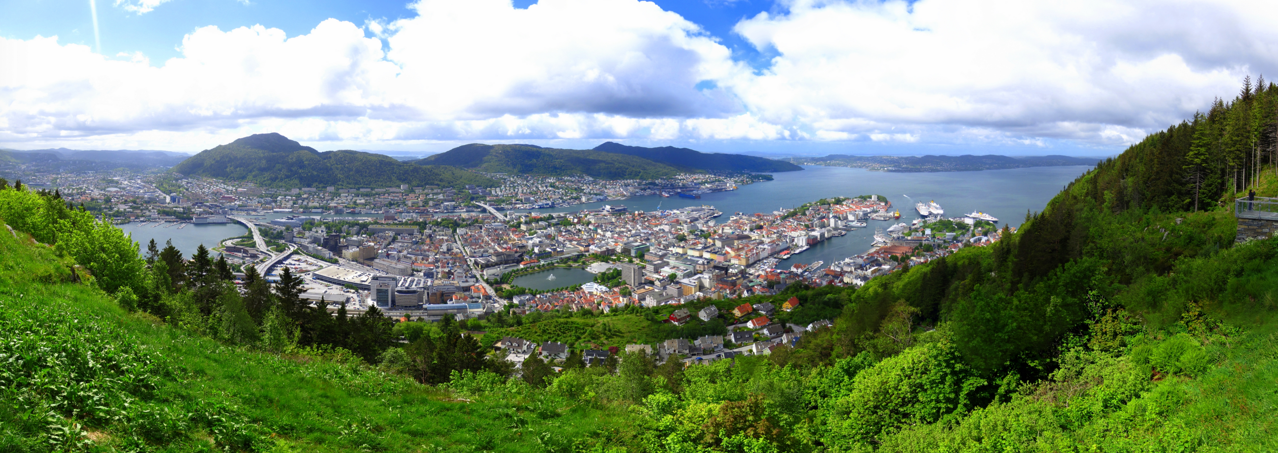 A panoramic photograph taken from Fløyen mountain overlooking Bergen city